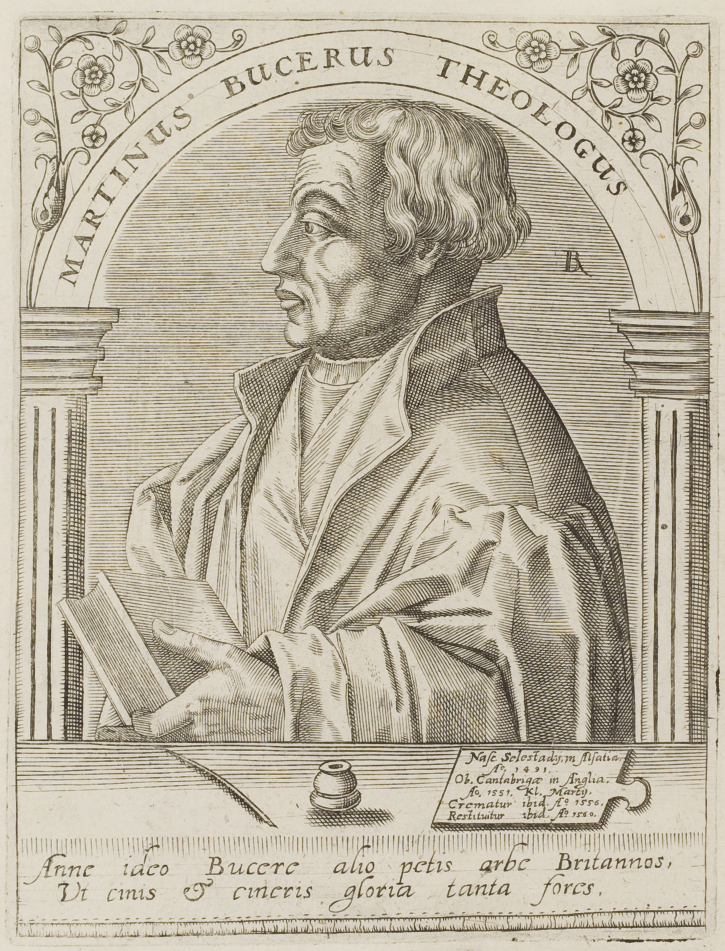 Martin Bucer, original in Icones quinquaginta vivorum held in British Library, London.